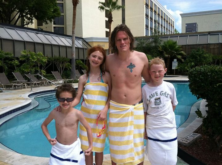 Scott Singleton with his nephews Seth and Aiden, and his niece Haley, in Orlando, FL